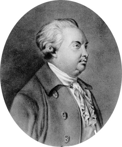 An image of Denis Ivanovich Fonvizin